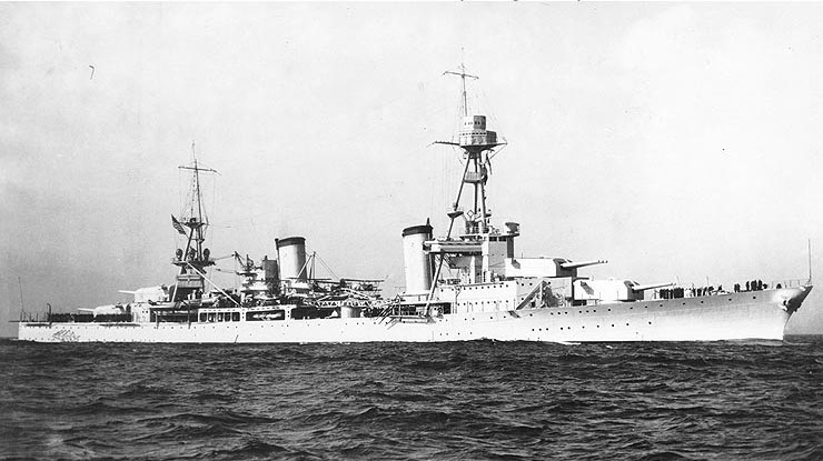 USS Salt Lake City (CA-25) photographed during the early 1930s.